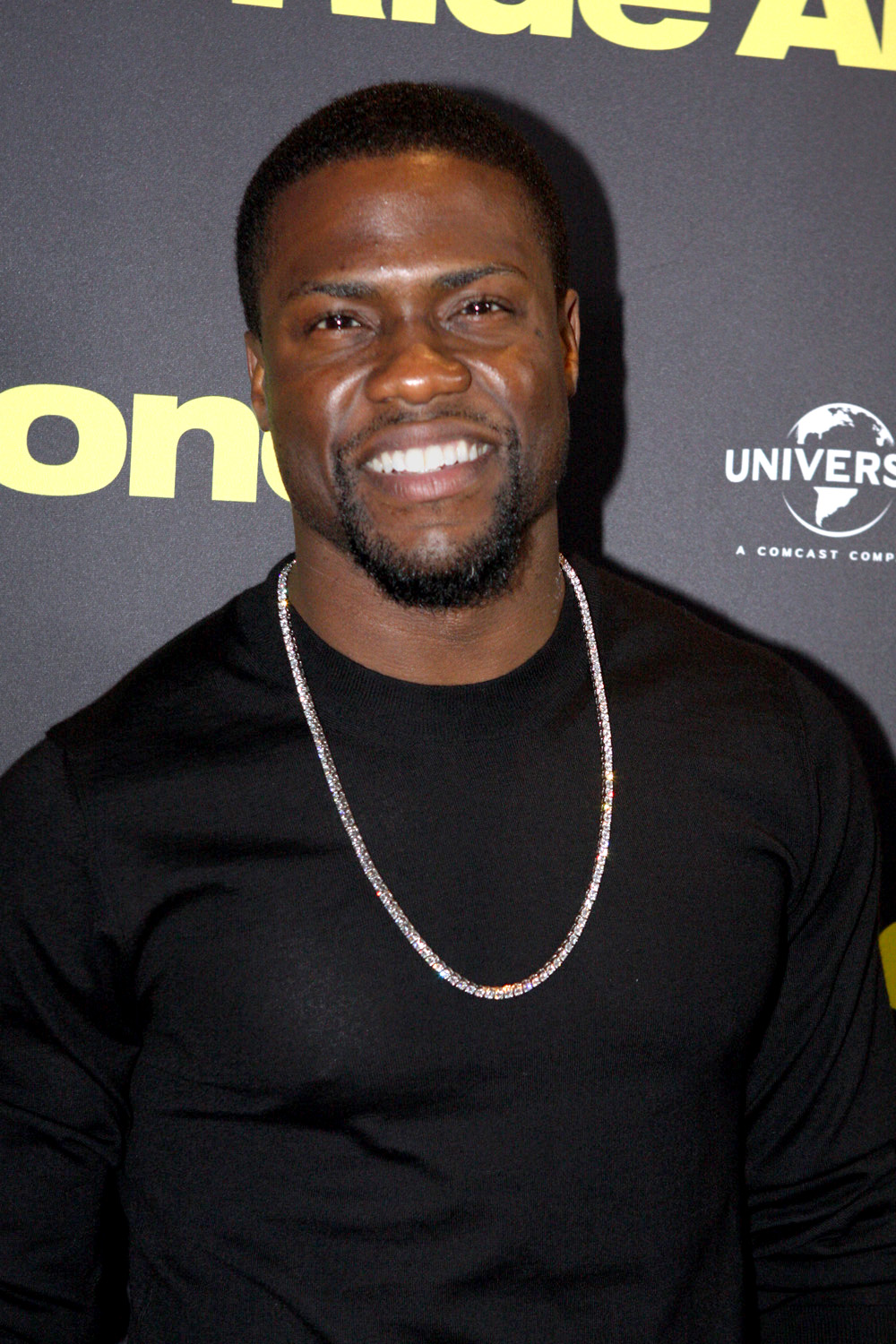 Kevin Hart, Ride Along Red Carpet Premiere, Sydney Australia